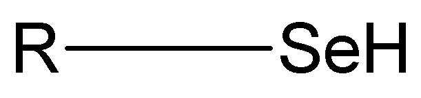 Comments High-resolution black/white .PNG made with ChemSketch and Photoshop — see WikiProject Chemistry - structure drawing for detailed instructions. Please drop me a note if you need the source file. Category:Chemical structures (Original text: Chemical structure of Selenol)